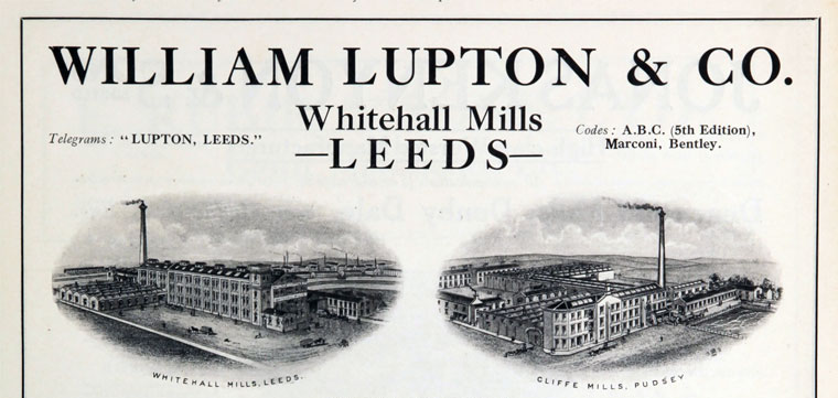 In 1921, Frances Martineau Lupton owned the family mills and textile manufacturing firm William Lupton and Sons - Est. in 1773 in Leeds and later Pudsey